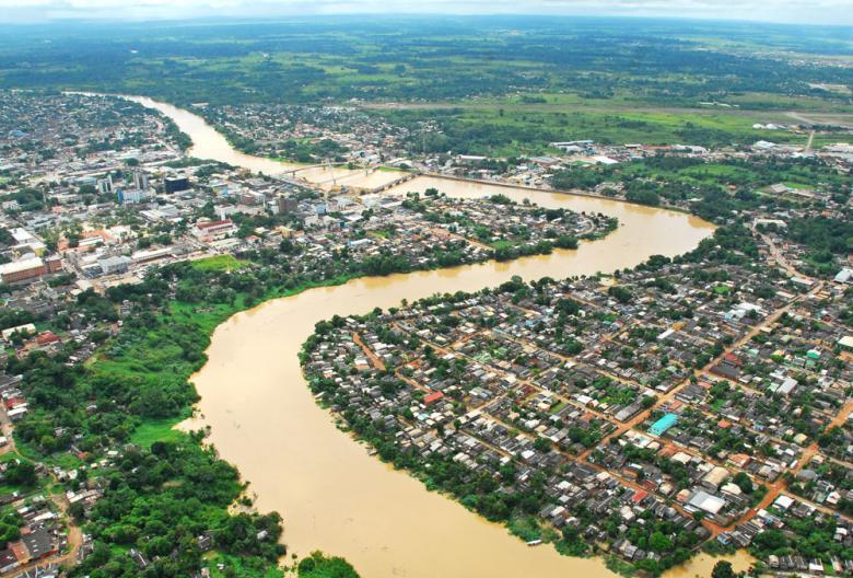 Partial view of Rio Branco, Acre, Brazil.